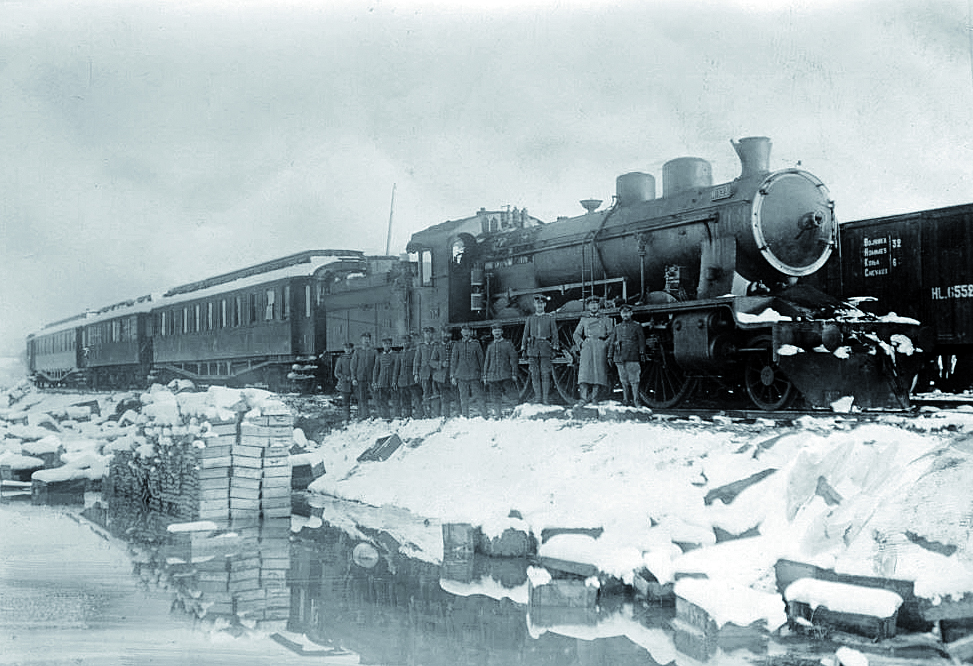 Private Train of the crown prince of Serbia